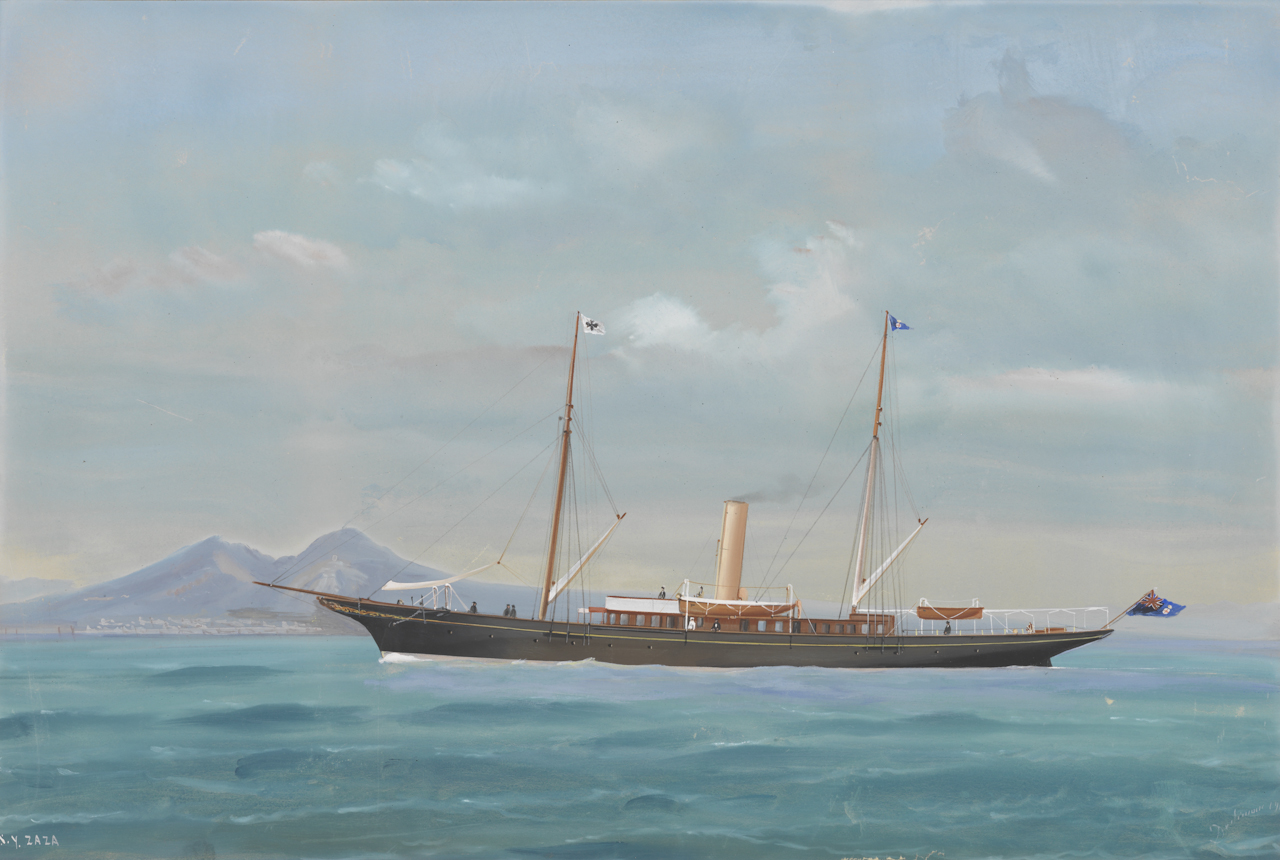 S.Y. Zaza Signed by artist and dated. S.Y. Zaza